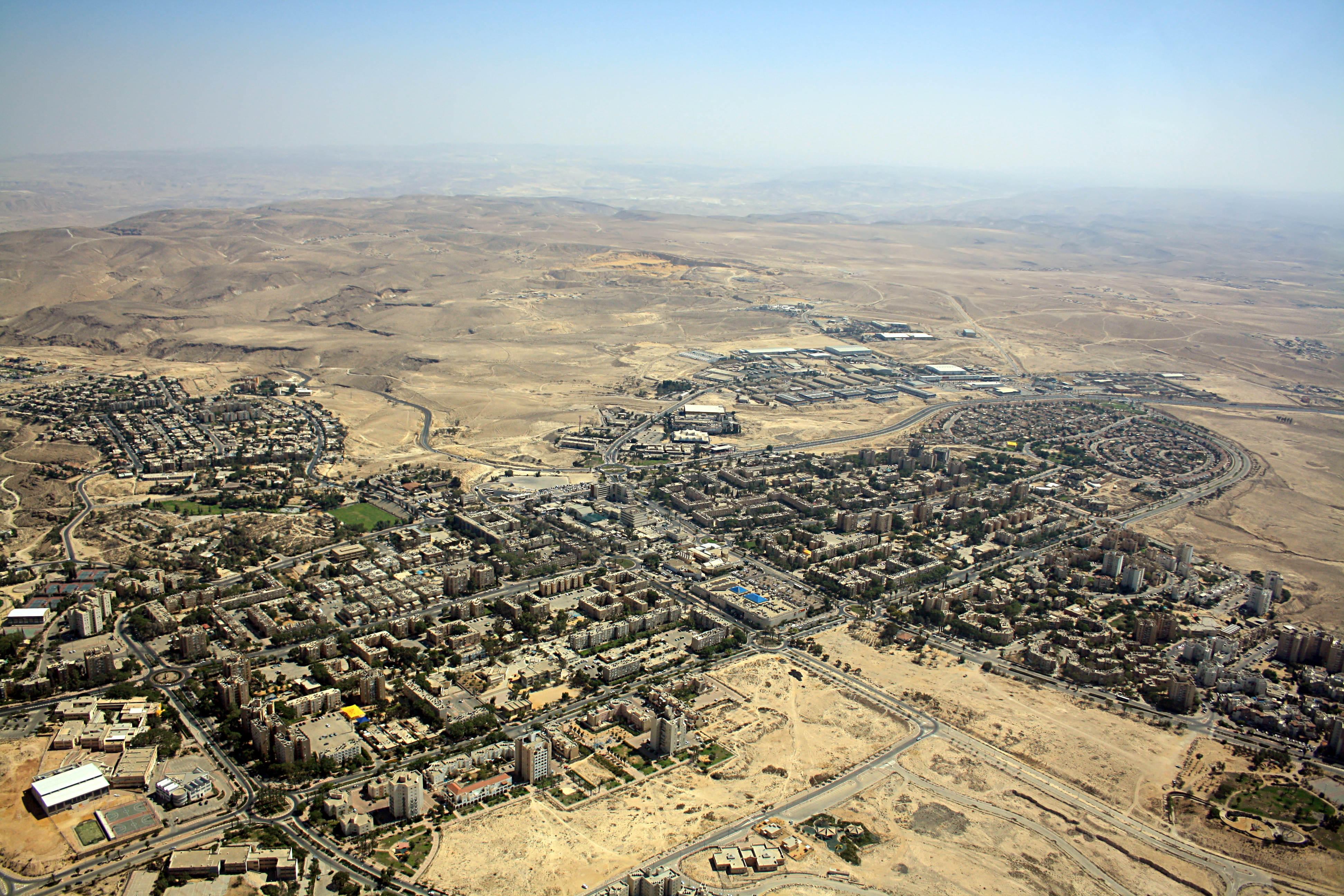 Arad.